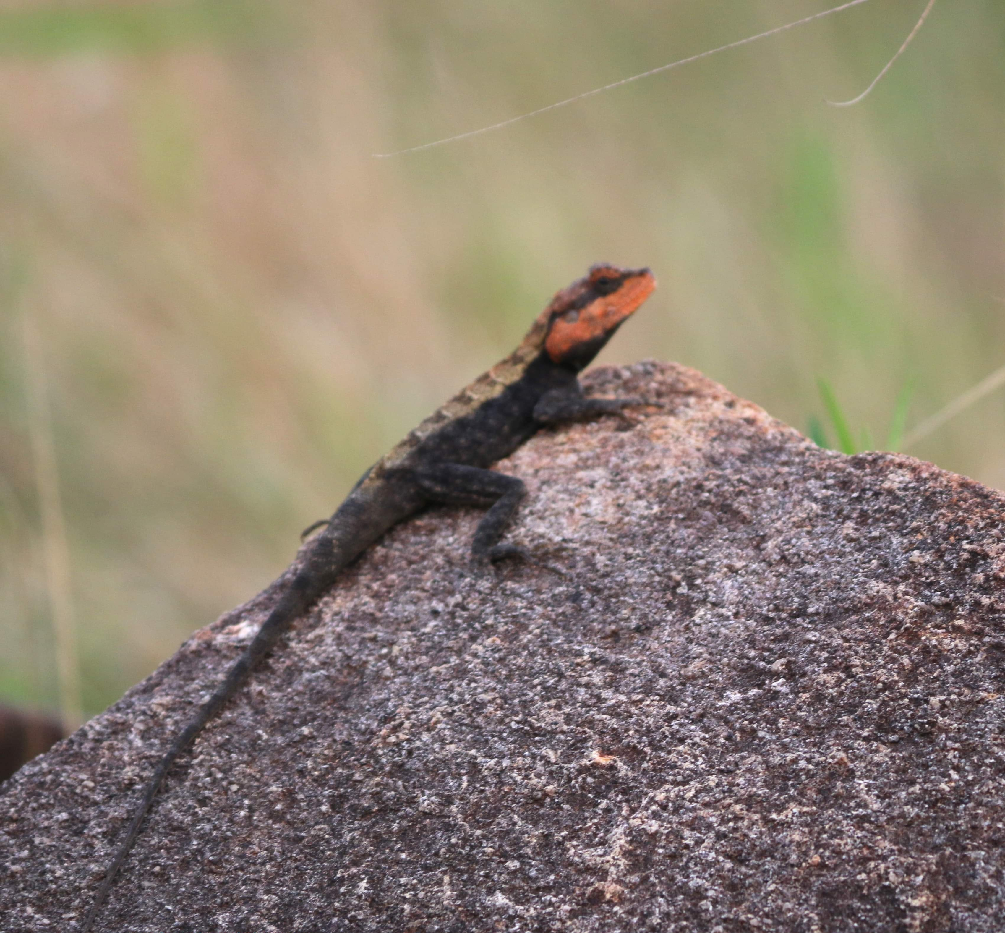 Peninsular rock agama male,from kodikuthimala Perinthalmanna